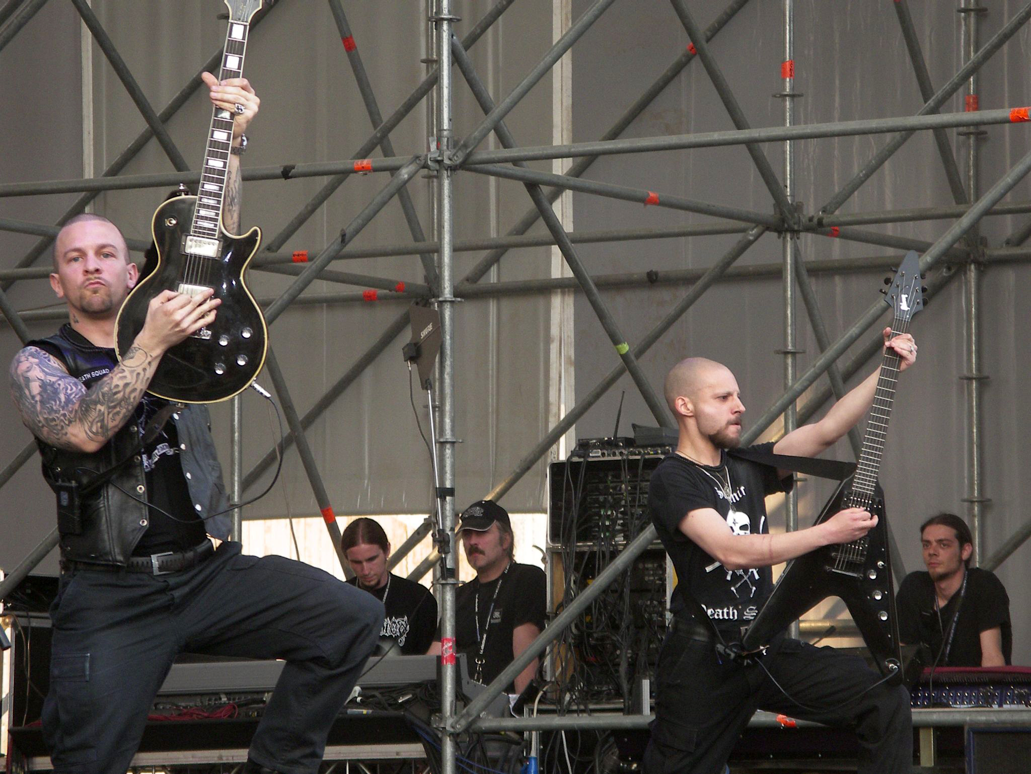 Dissection live in 2005